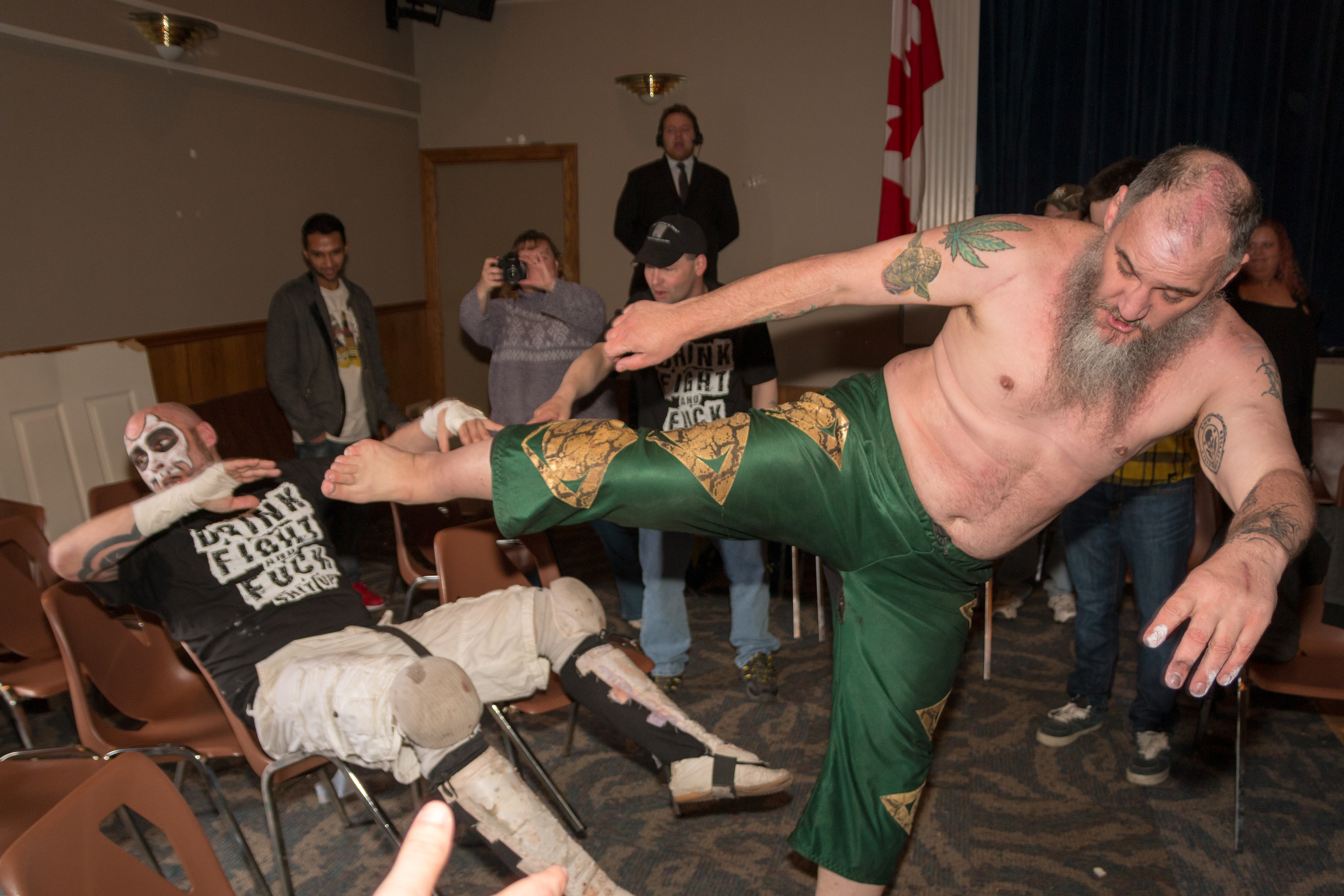 Necro Butcher (right) hitting a superkick on a seated Warhed at an independent show in London, ON